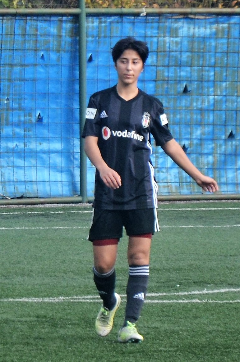 Elif Keskin of Beşiktaş J.K. (women's football)in the 2018-19 Turkish First Football League season's home match against ALG Spor